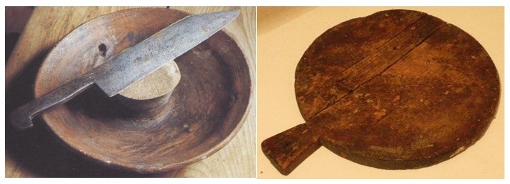 Examples of two types of wood tajador (trencher tableware). Tools of the slaughter of the pig. (Avila, Spain)